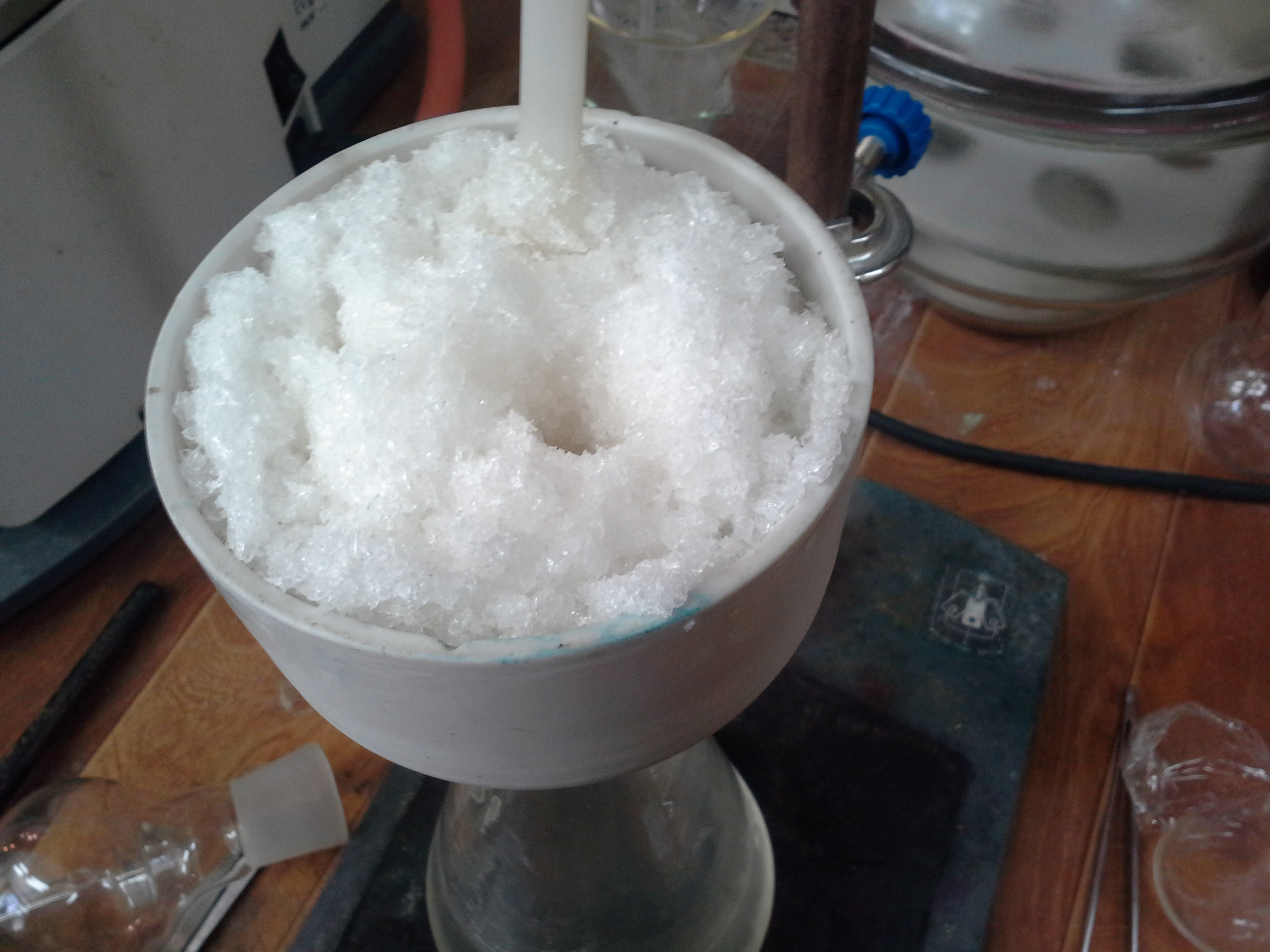 Chloroacetic acid crystallisation